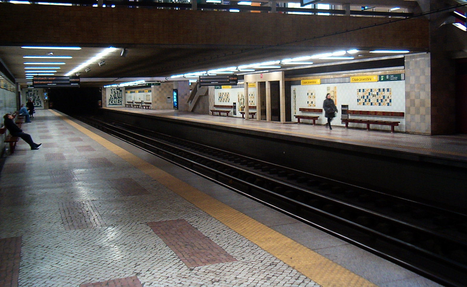 Metro station Cidade Universitária (Lisboa)